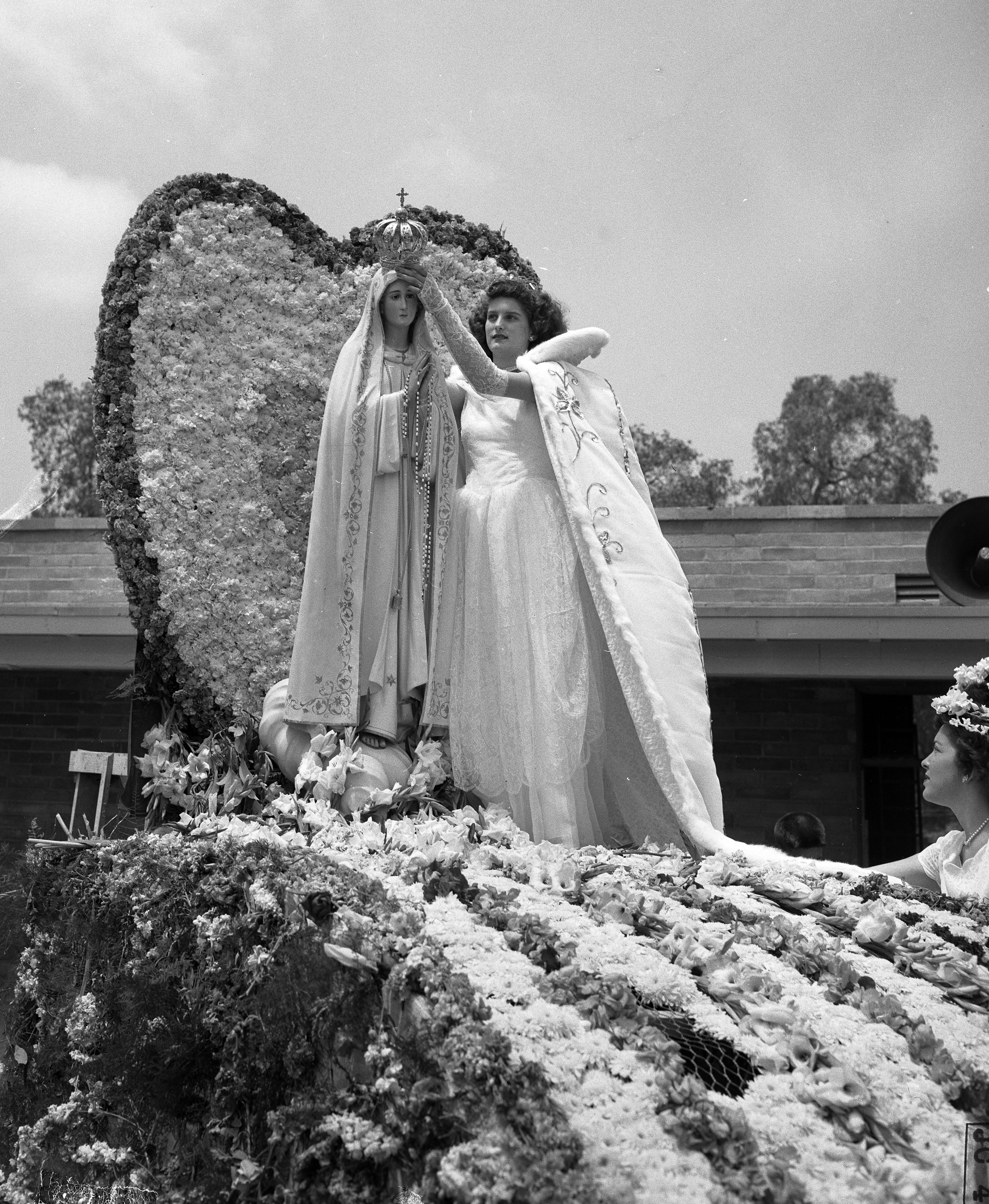 Title: Florine Gonsalves crowns Our Lady of Fatima statue during Portuguese festival in Artesia, Calif., 1948 Published caption:SOLEMN MOMENT -- Queen Florine Gonsalves places $1000 gold crown on statue of Our Lady of Fatima as part of traditional Portuguese festival at Artesia. Publication:Los Angeles Times Publication date:May 24, 1948 Source:Los Angeles Times photographic archive, UCLA Library Licensing Note about non-renewal of copyright: [1]